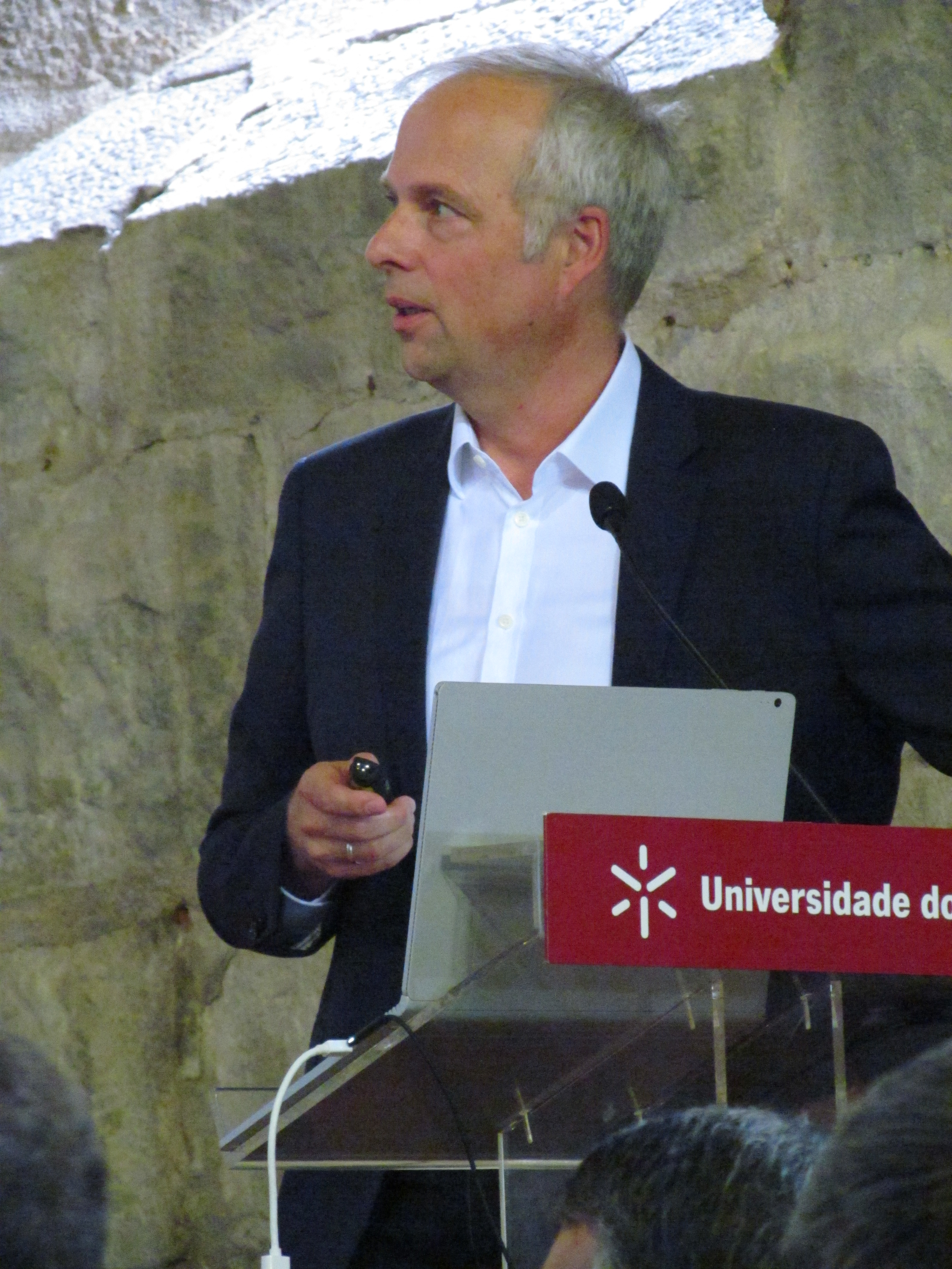 Jörg Wrachtrup on 1 July 2016 at the Episcopal Palace, Braga.